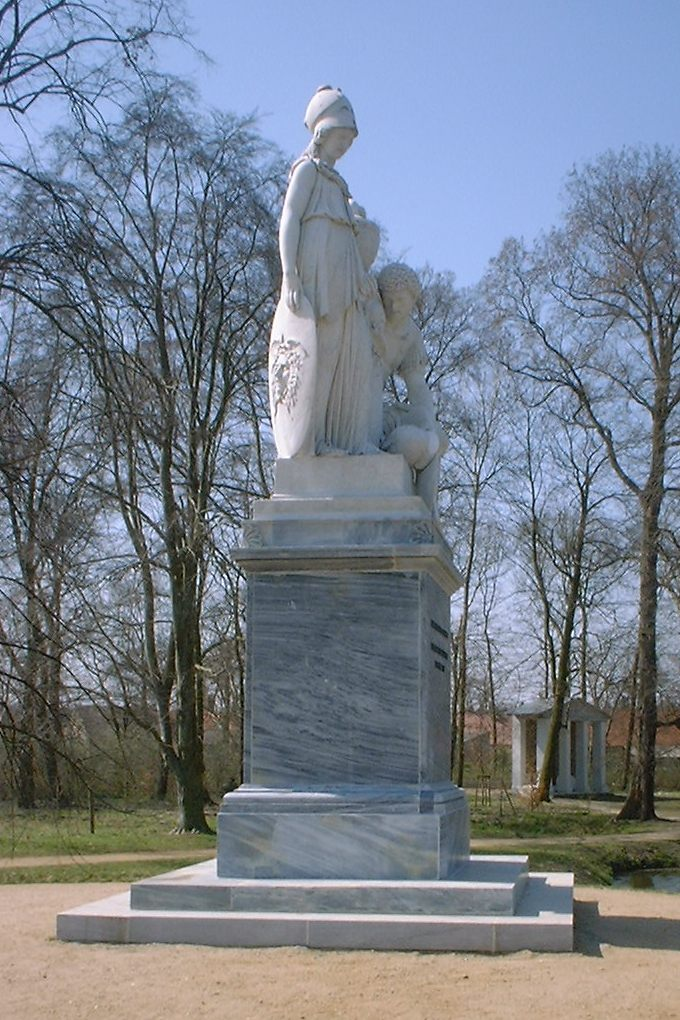 Memorial of Frederick II in Neuhardenberg in Brandenburg, Germany